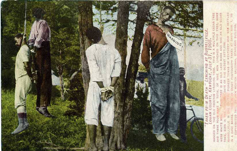 " Taken from death, lynching at Russellville, Logan County, Kentucky "